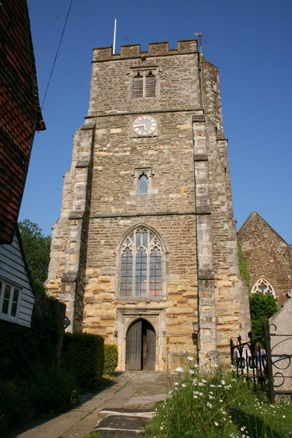 All Saints' parish church, Staplehurst, Kent, seen from the west